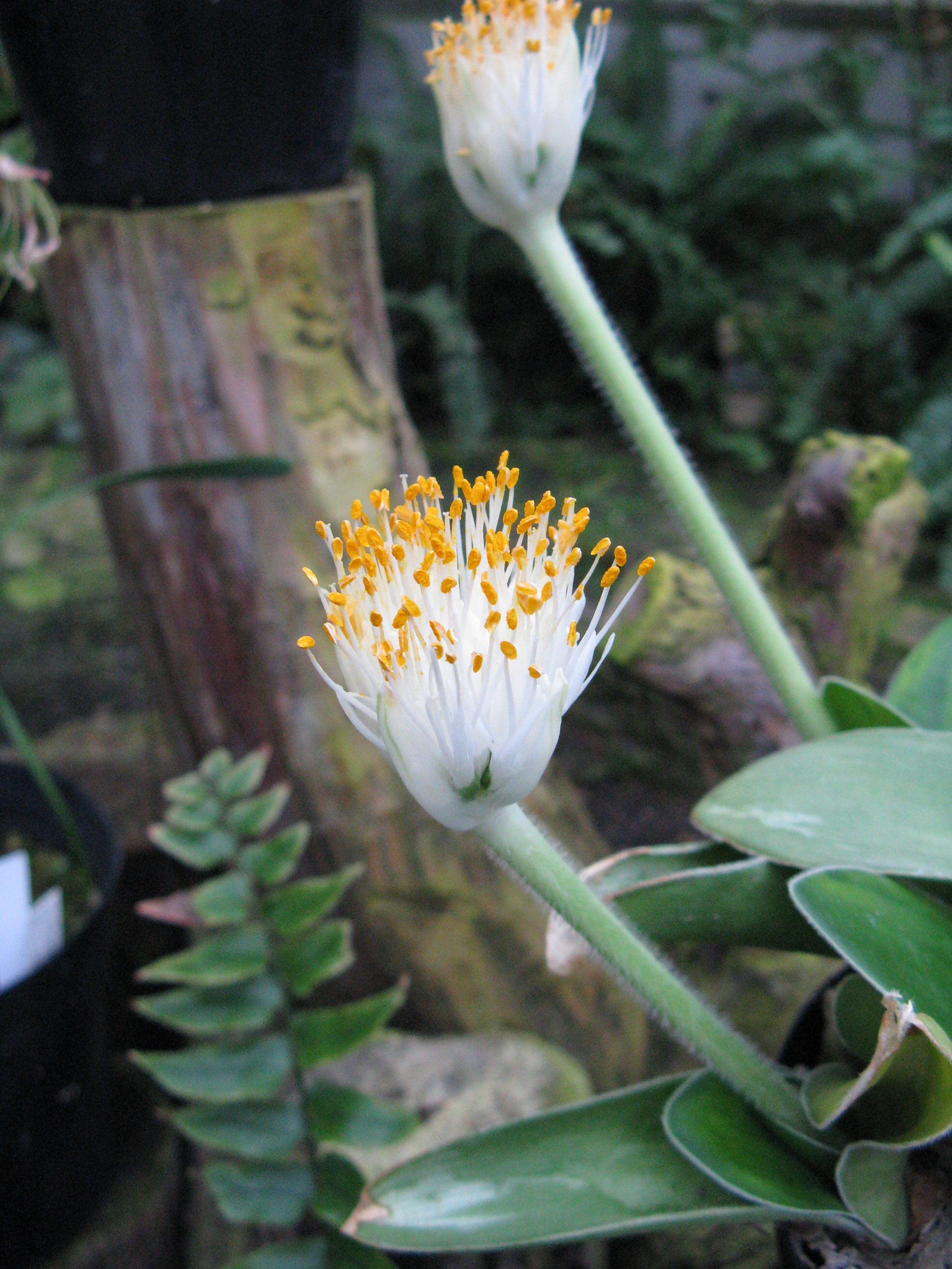 Haemanthus albiflos